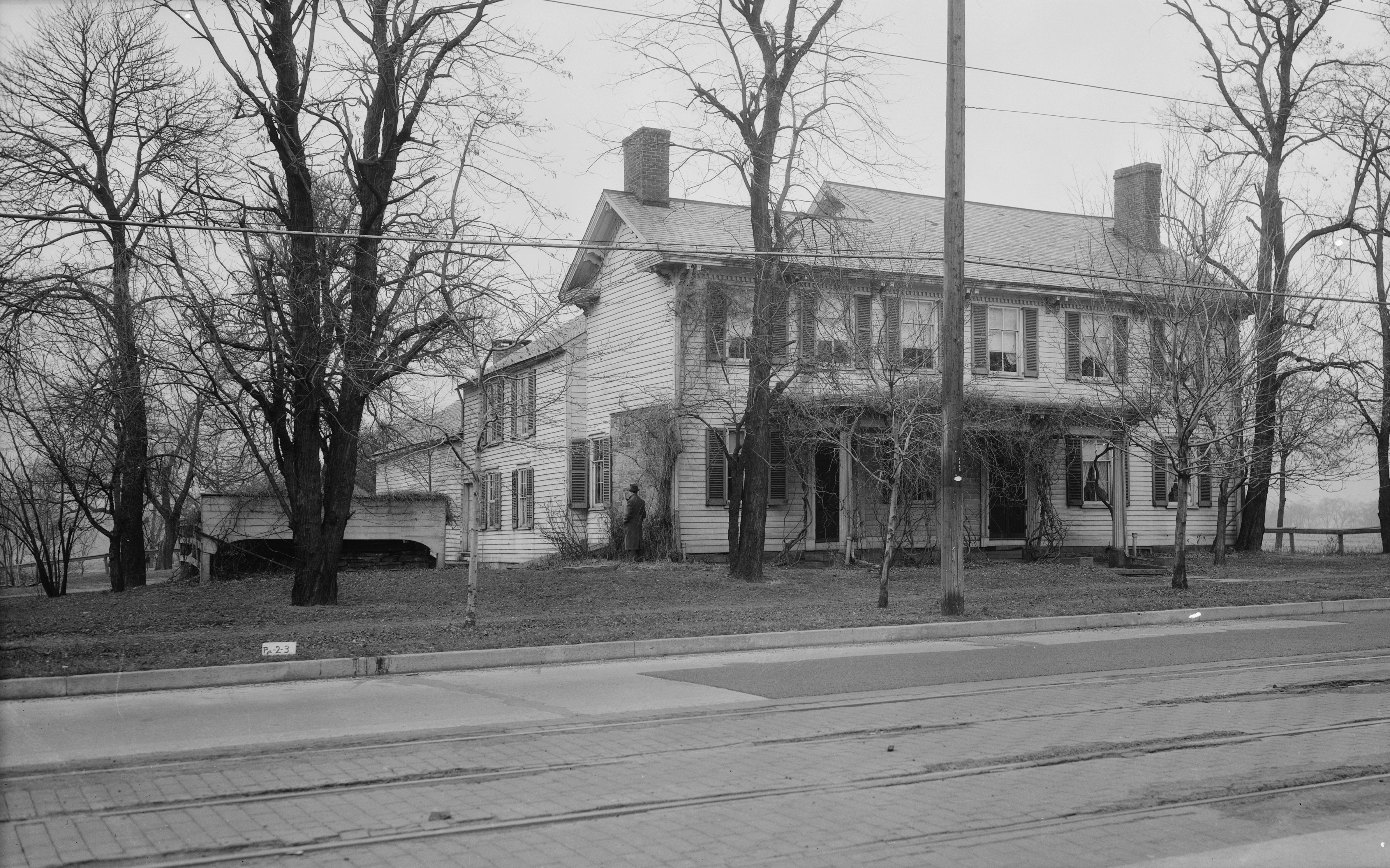 Front of the Swetland Homestead, located at 855 Wyoming Avenue in Wyoming, Pennsylvania, United States. Built in 1797, it is listed on the National Register of Historic Places.